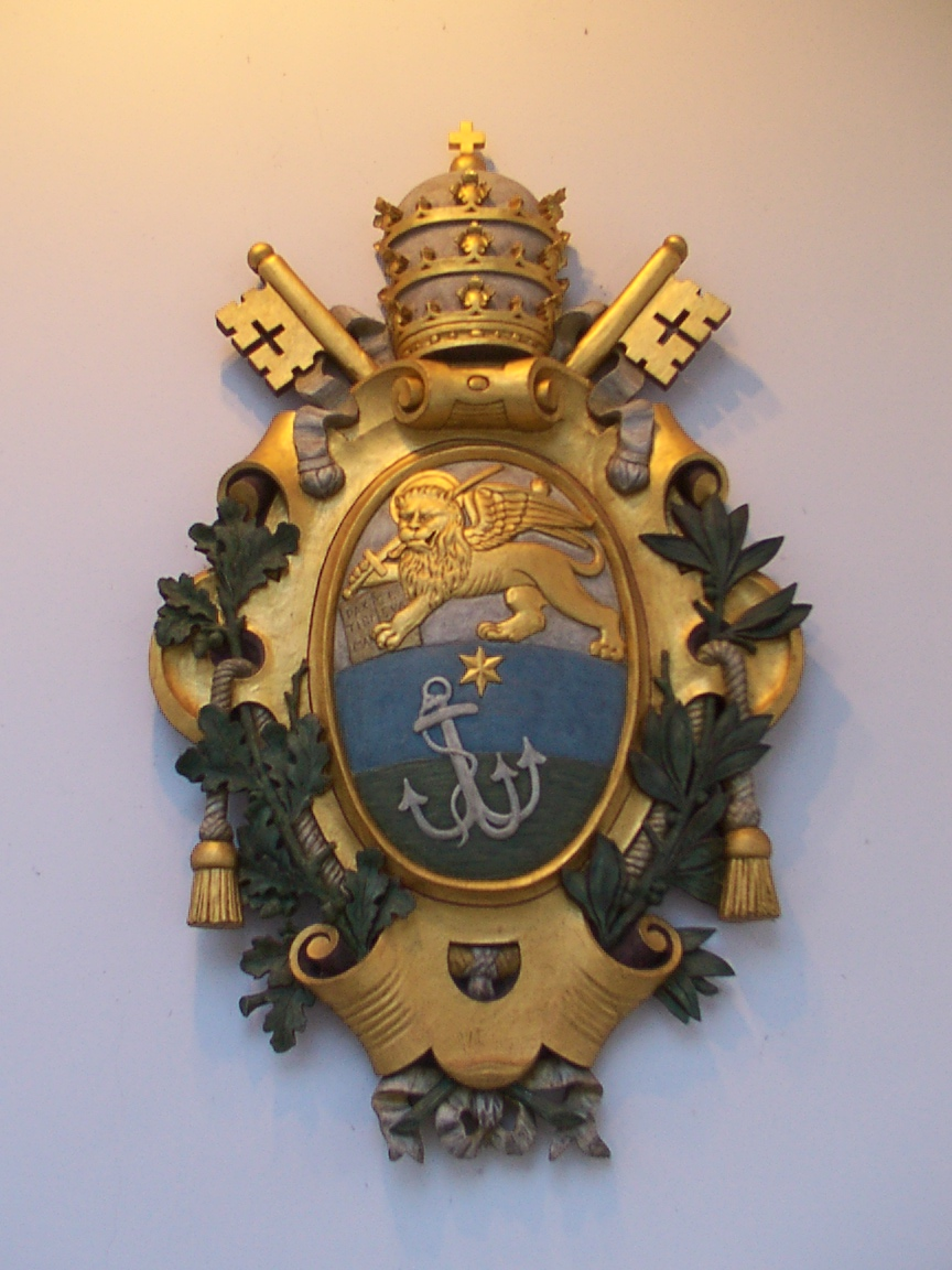 Pope Pius X coat of arms, photographed in the "Liboriustrinkhalle" in Bad Lippspringe